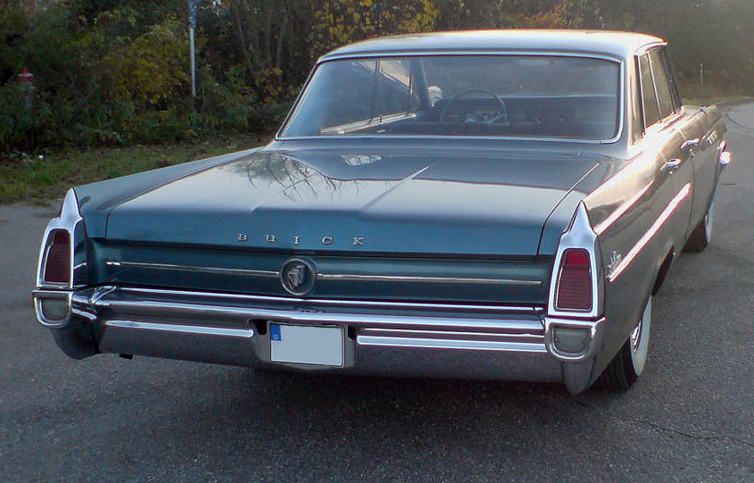 1963 Buick LeSabre, rear view